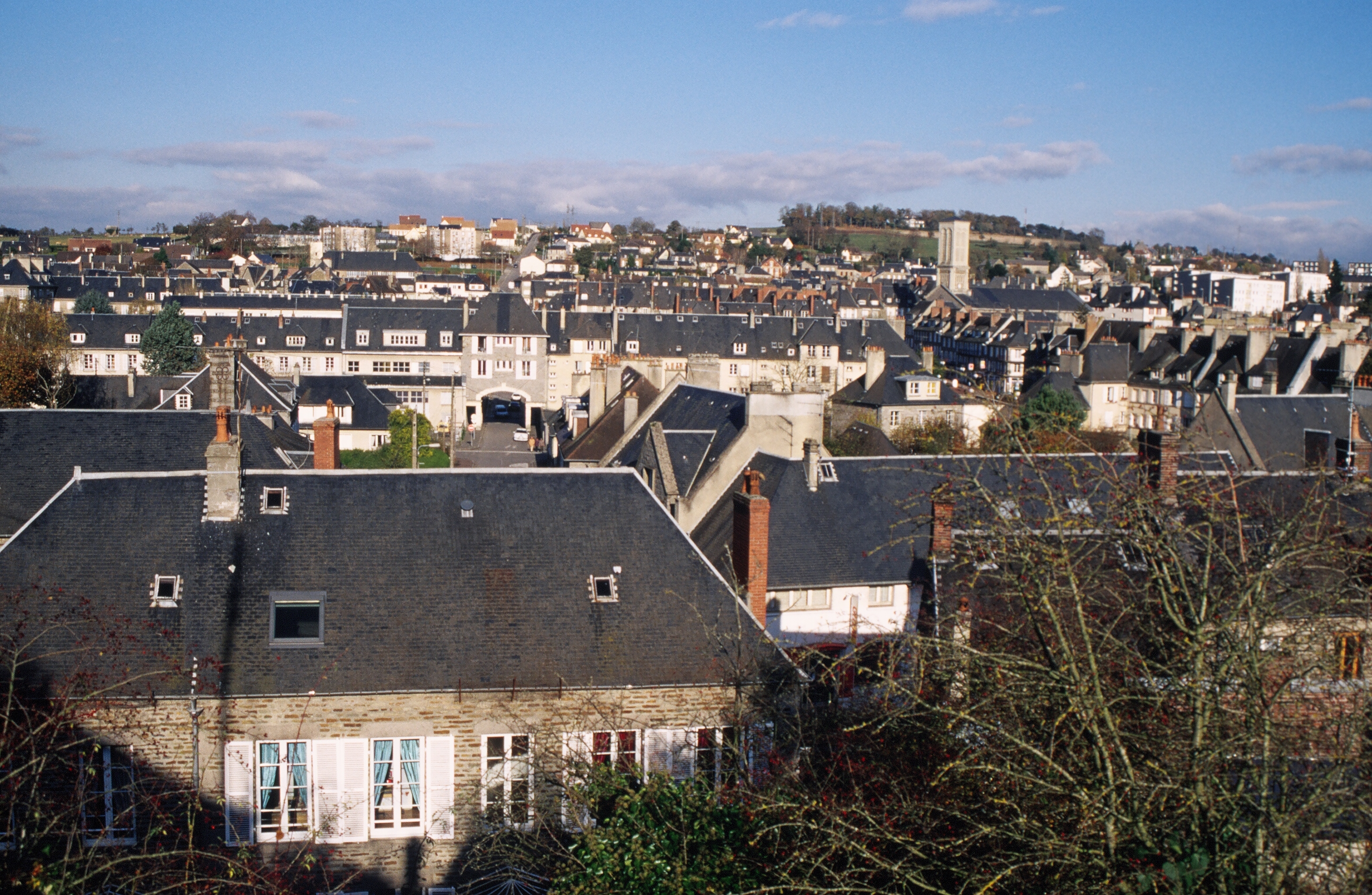 Condé-sur-Noireau citie in Calvados, France